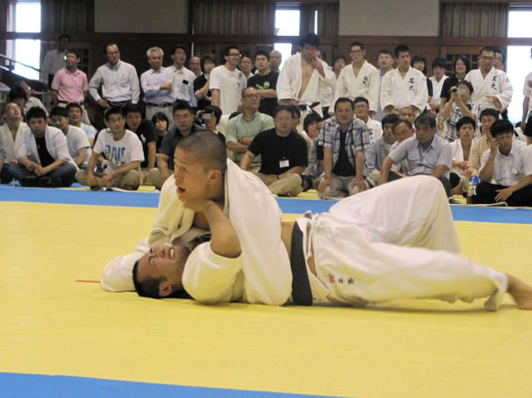 nanateijudo